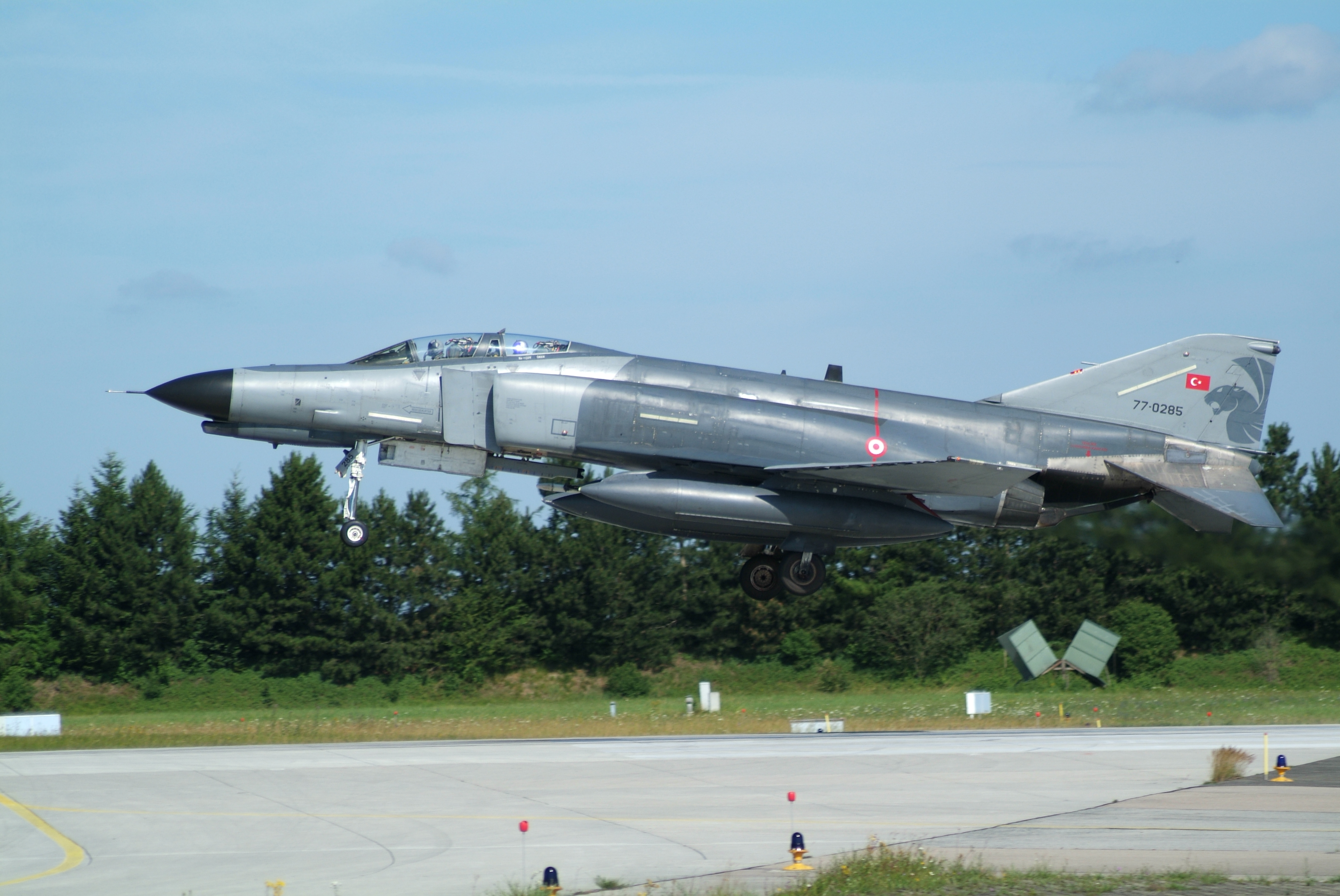 Landing Turkish F-4E